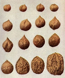 Original description: Variations in Walnuts All of the variations pictured above were secured by crossing. Mr.Burbank, in his walnut work, has grown nuts by the wagon load for the purpose of finding one of two which came near ideal.